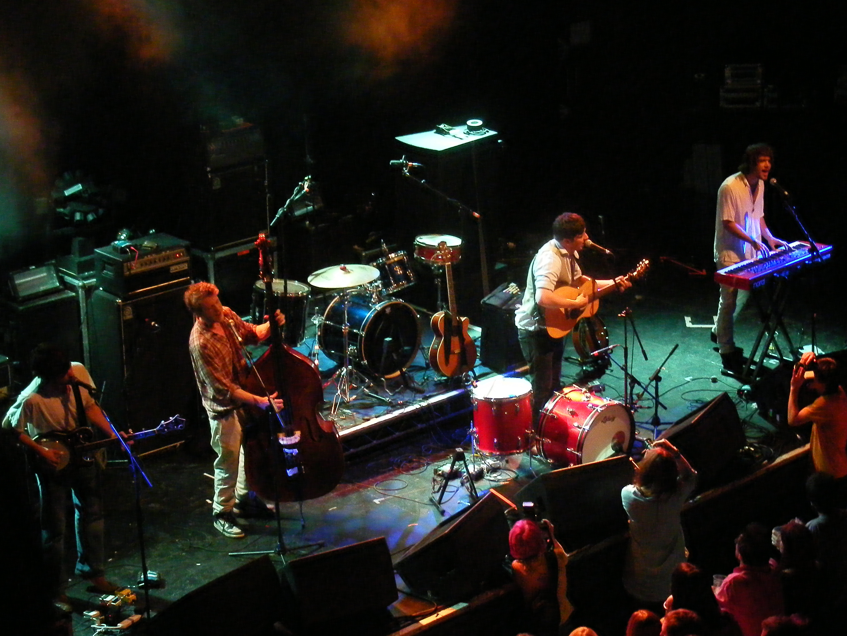 Photo of Mumford & Sons performing at Bristol 2009. Originally uploaded on [1] by thetroubadoursroad.